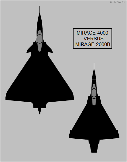 Plan-view silhouettes of the Dassault Mirage 2000 and Mirage 4000